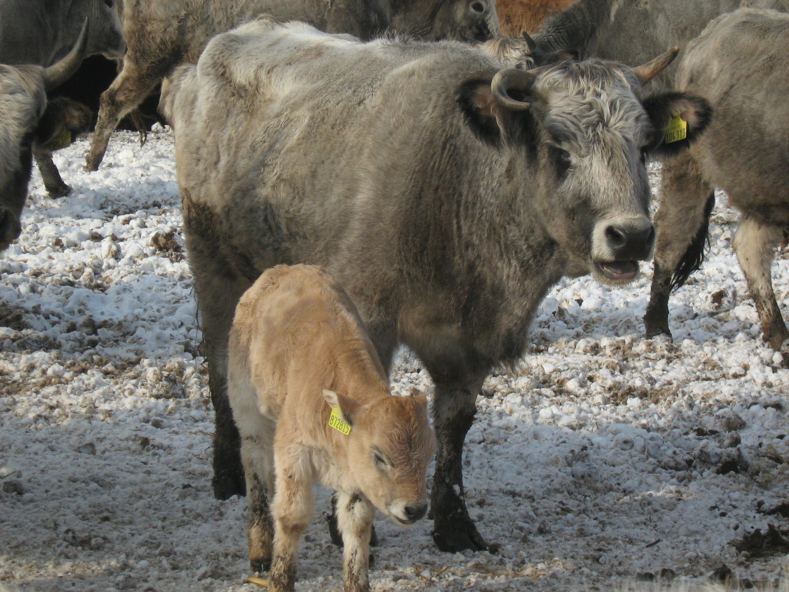 Bulgarian gray cattle